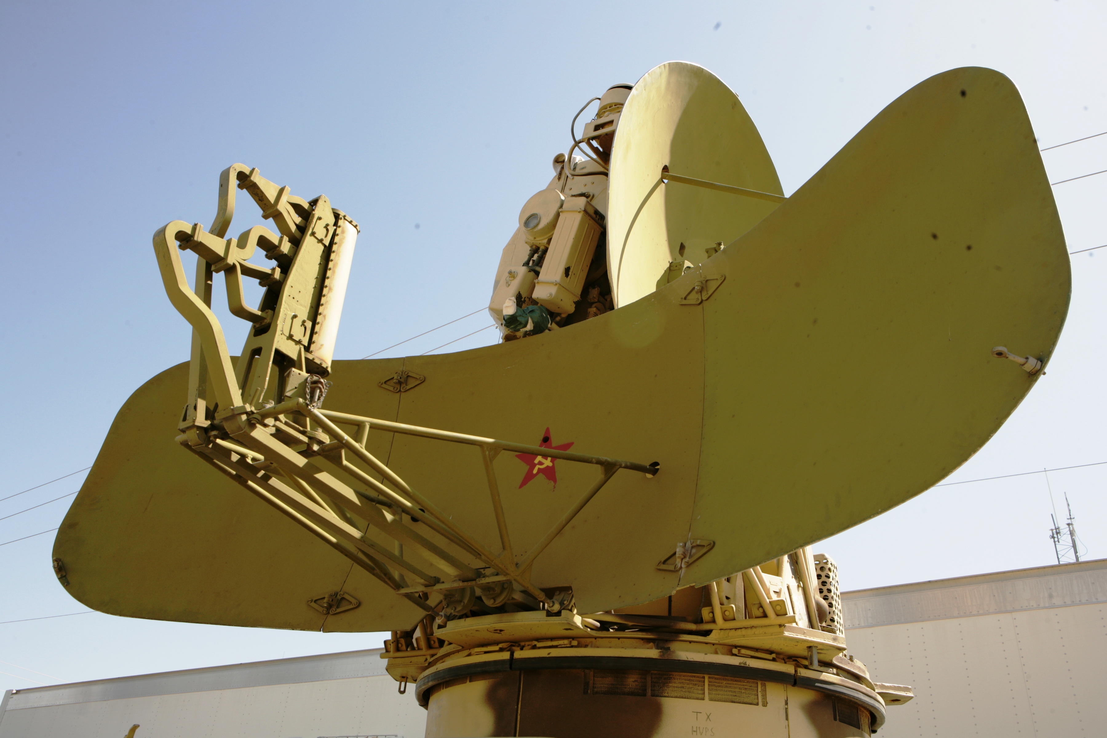 A radar array is mounted atop a former Soviet ZRK-SD Kub Straight Flush radar system parked at Marine Corps Air Station Yuma, Ariz., April 3, 2010.